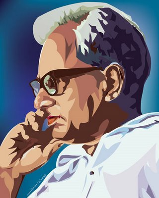 G. Sankara Kurup the first winner of the Jnanpith Award